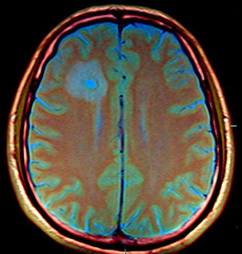 Brain MRI, in a patient with Lung ca, +RT for brain metastasis. Red T1, Green PD tse, Blue T2 tse